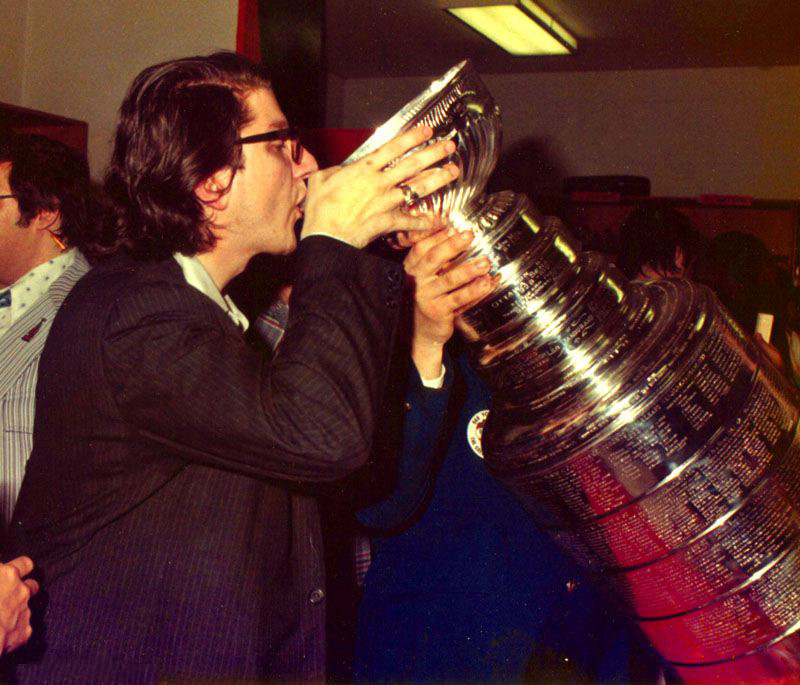 Drinking from the Stanley Cup in the Flyers' locker room at the Spectrum on May 19, 1974. (Source of and copyright owner of the image is the uploader, User:Centpacrr on whose user page this image is used as an illustration.)